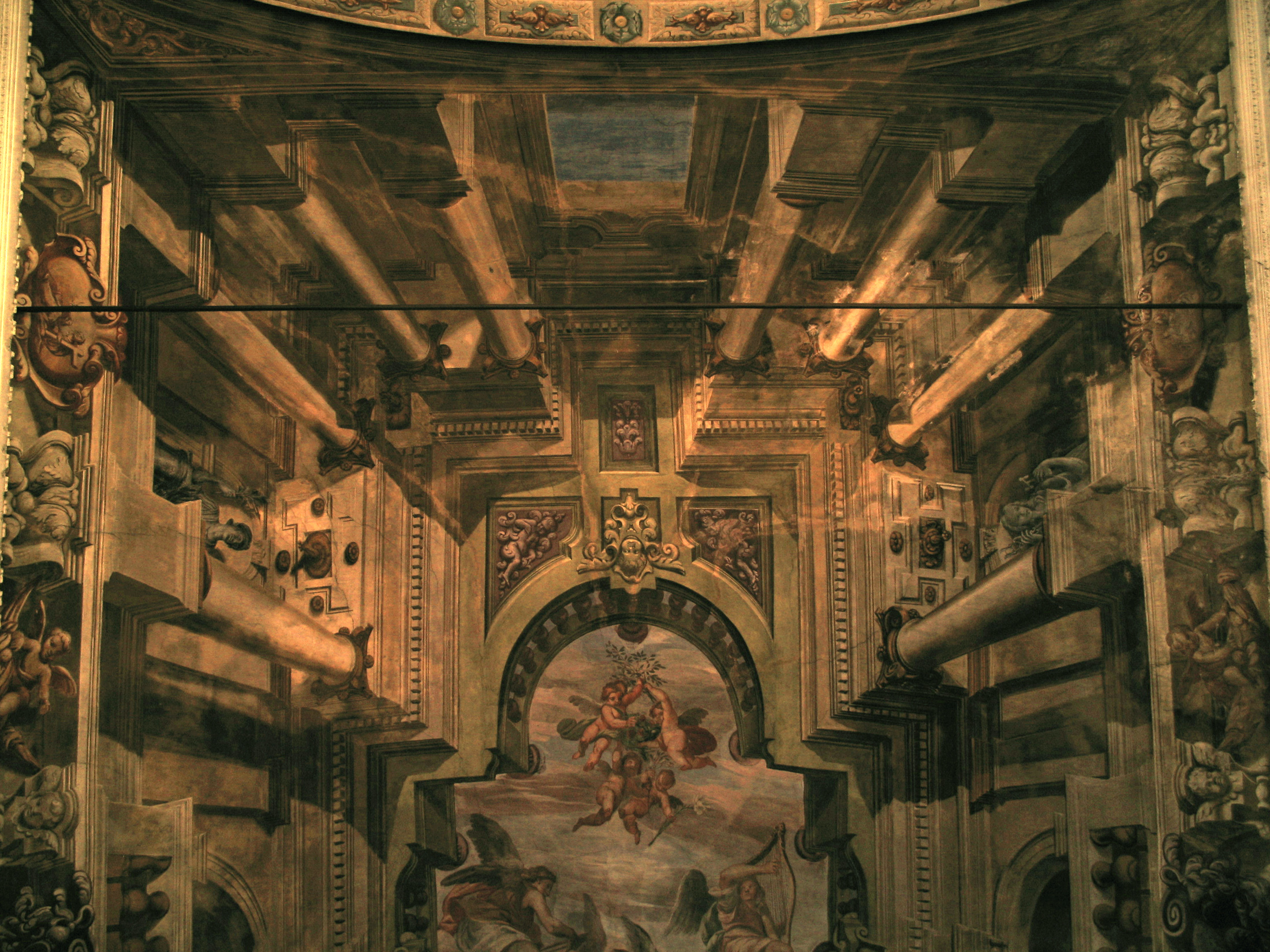 Church Santa Maria del Corlo, located in the town of Lonato near Lake Garda in Italy